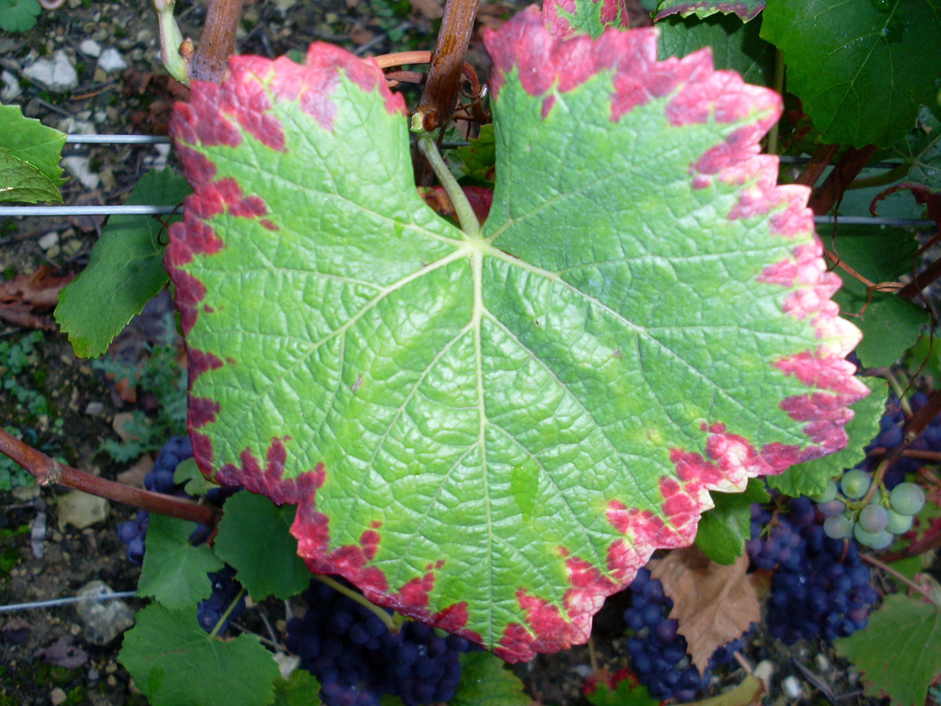 Pinot noir grapevine in the Burgundy.